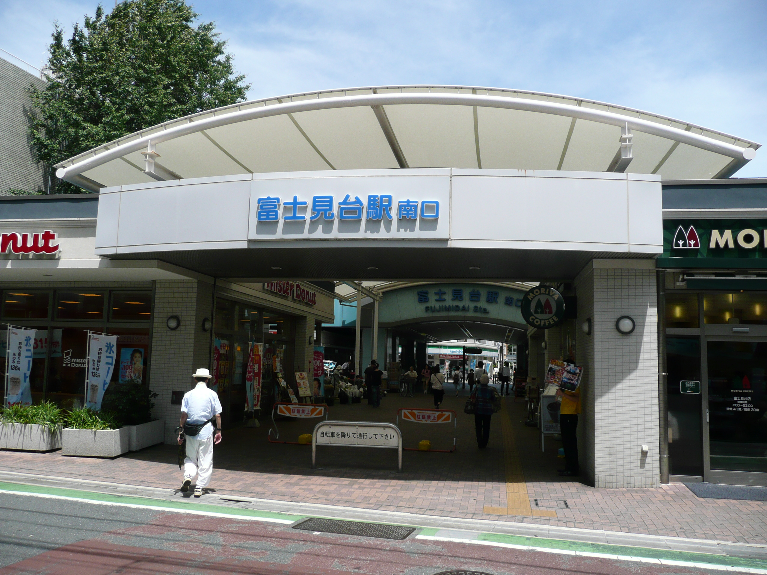 North Entrance of Fujimidai Station